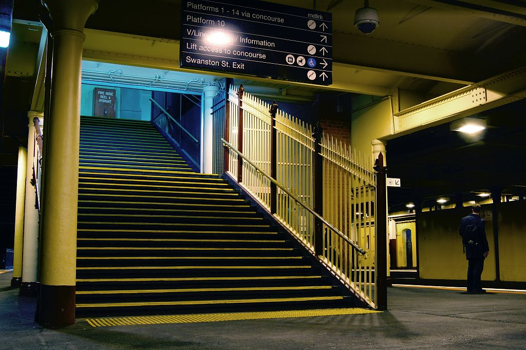 Access stairs from Platforms 12/13 to the main concourse at Flinders Street Station, Melbourne